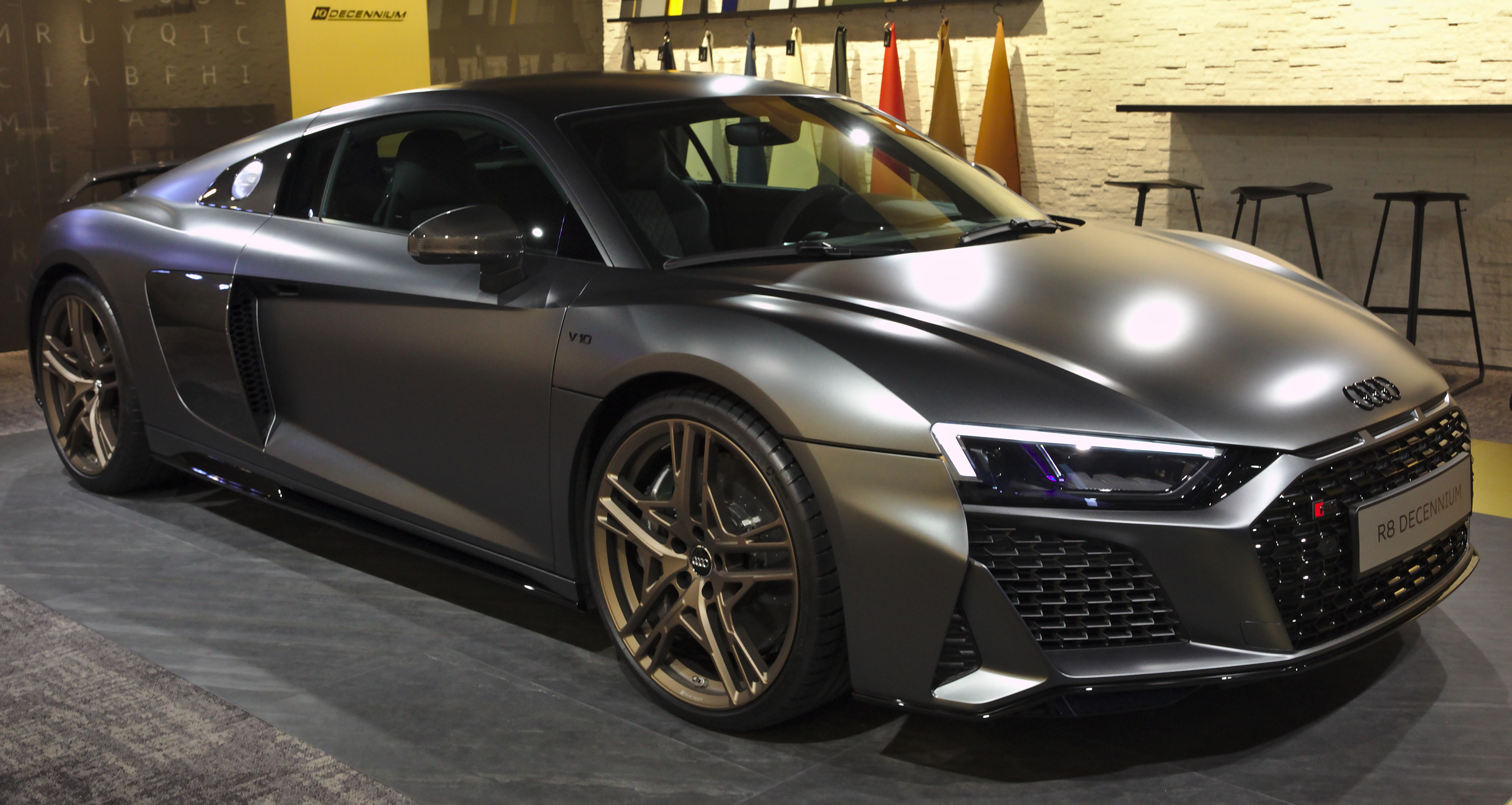 Audi R8 V10 Decennium at Geneva Motor Show 2019